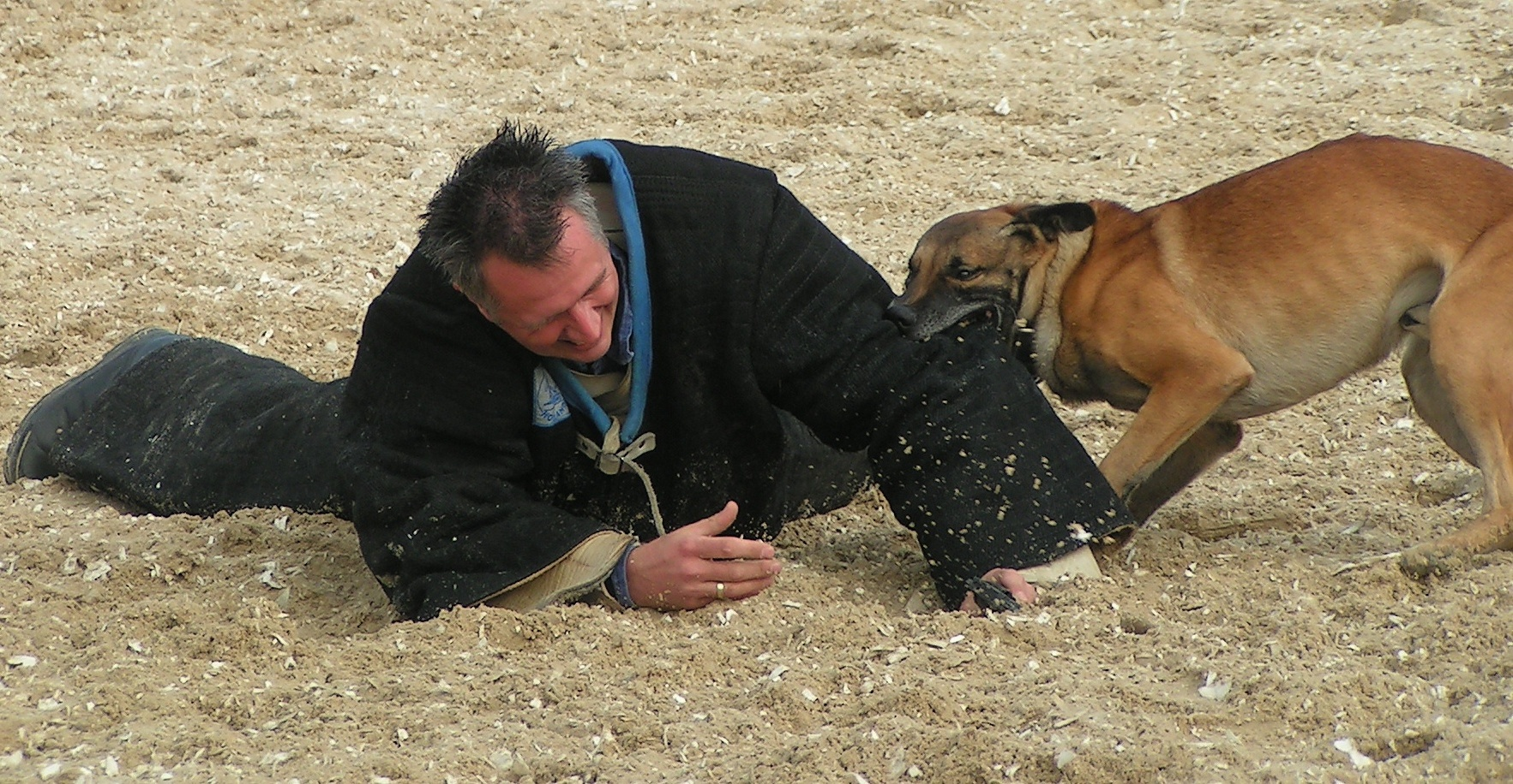 Demonstration of policedogs October 8, 2005 Houten, the Netherlands by Pethan